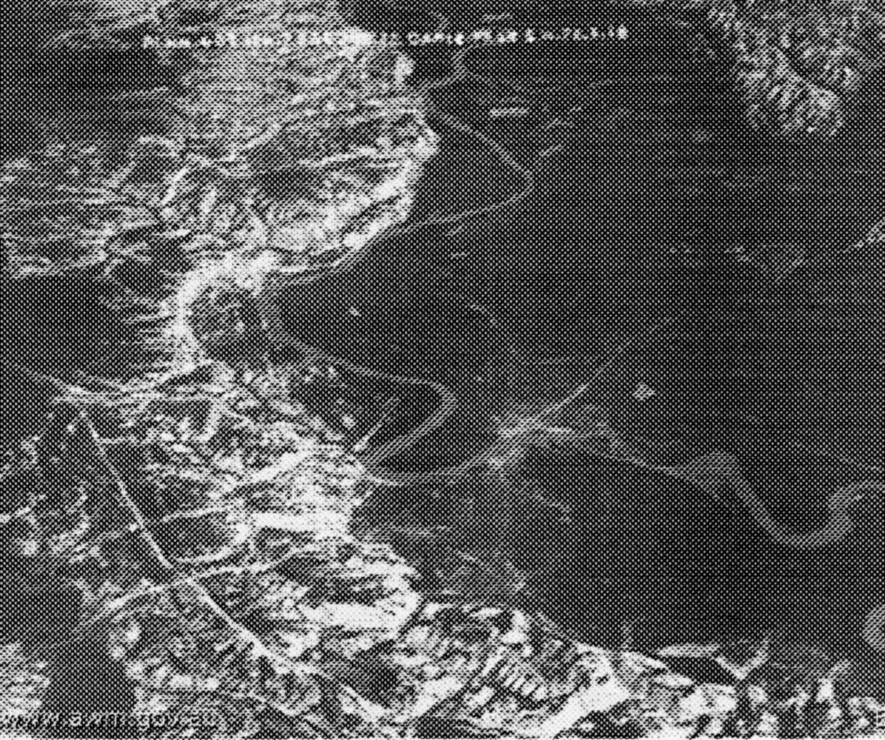 Aerial photo of Jisr ed Damieh area of the Jordan Valley